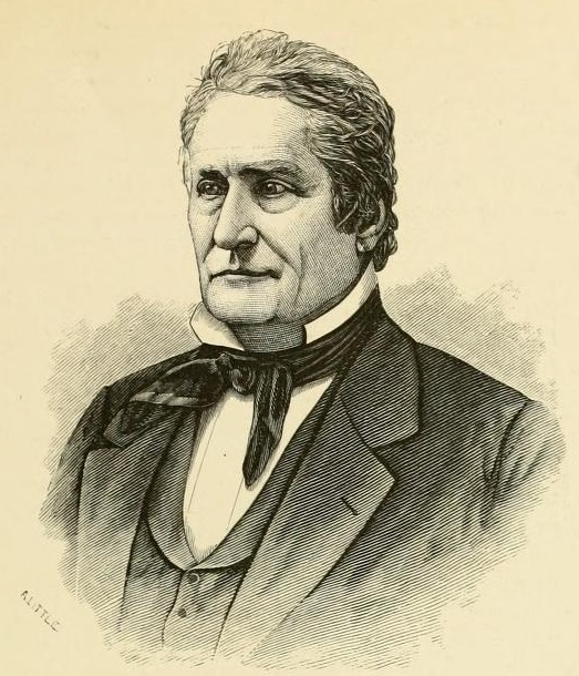 Ransom H. Gillet, New York Congressman